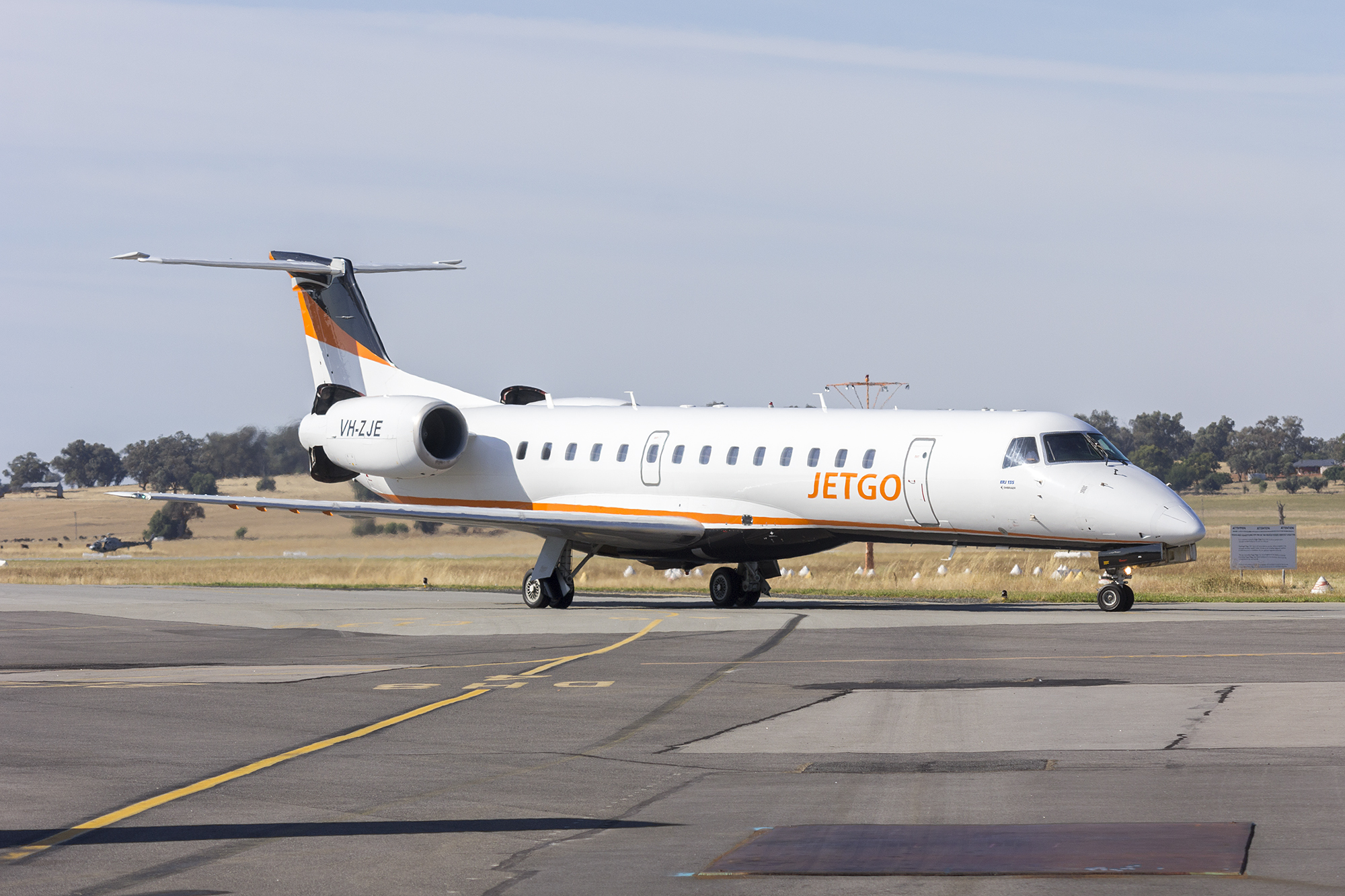 JetGo Australia (VH-ZJE) Embraer ERJ-140LR taxiing at Wagga Wagga Airport.